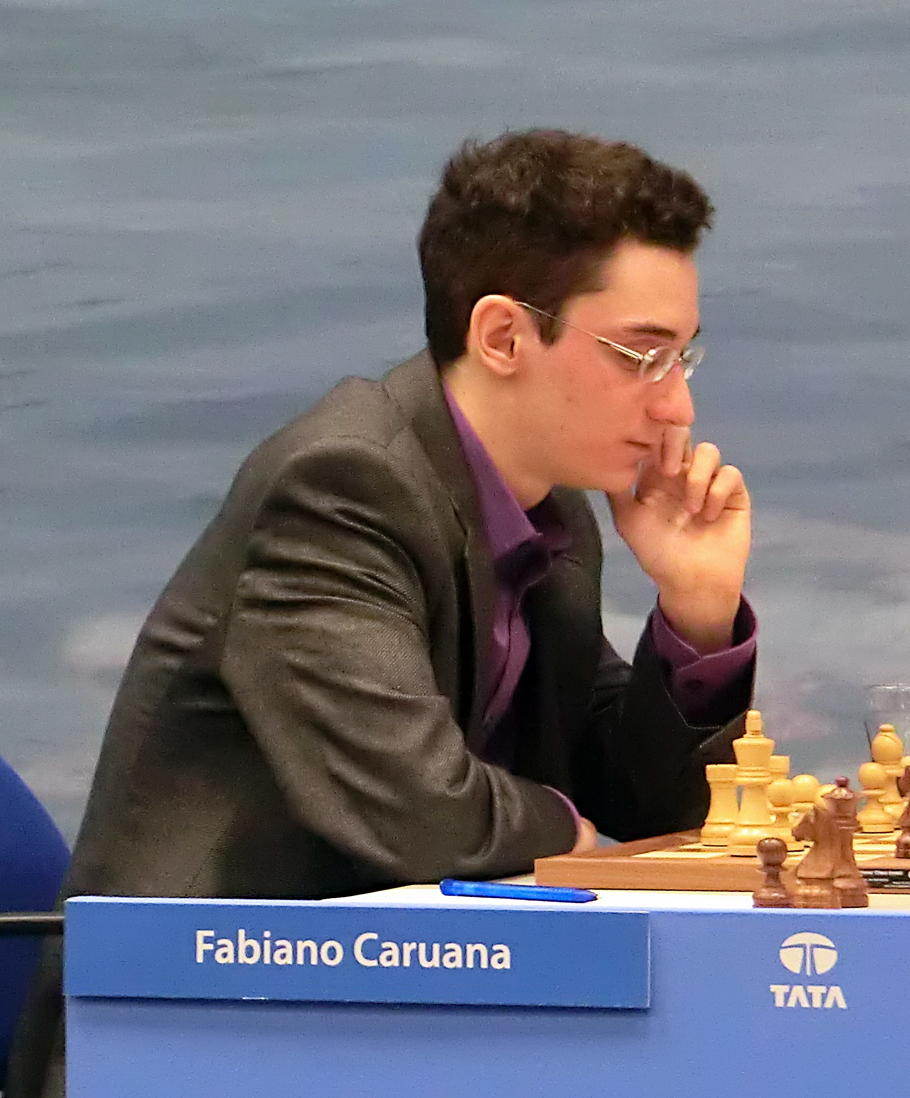 Fabiano Caruana, chess grandmaster from Italy